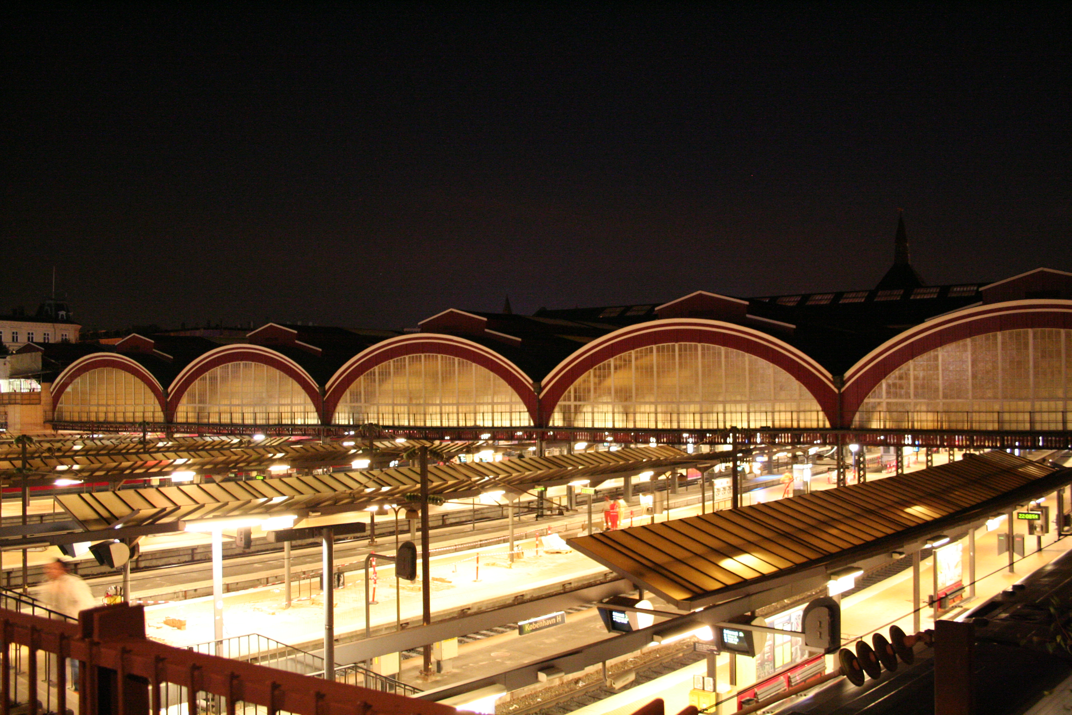 Copenhagen Central Station by night